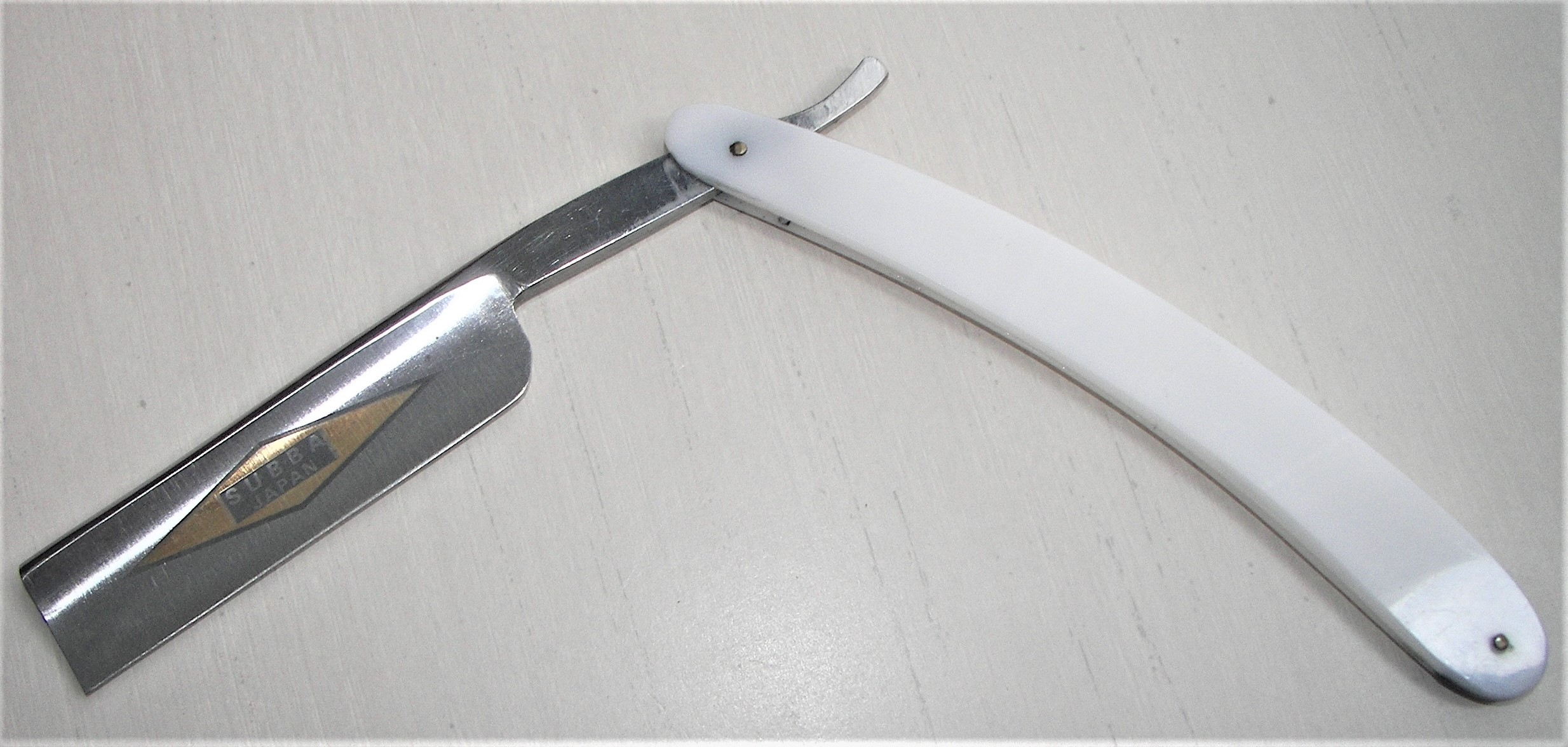 See filename above